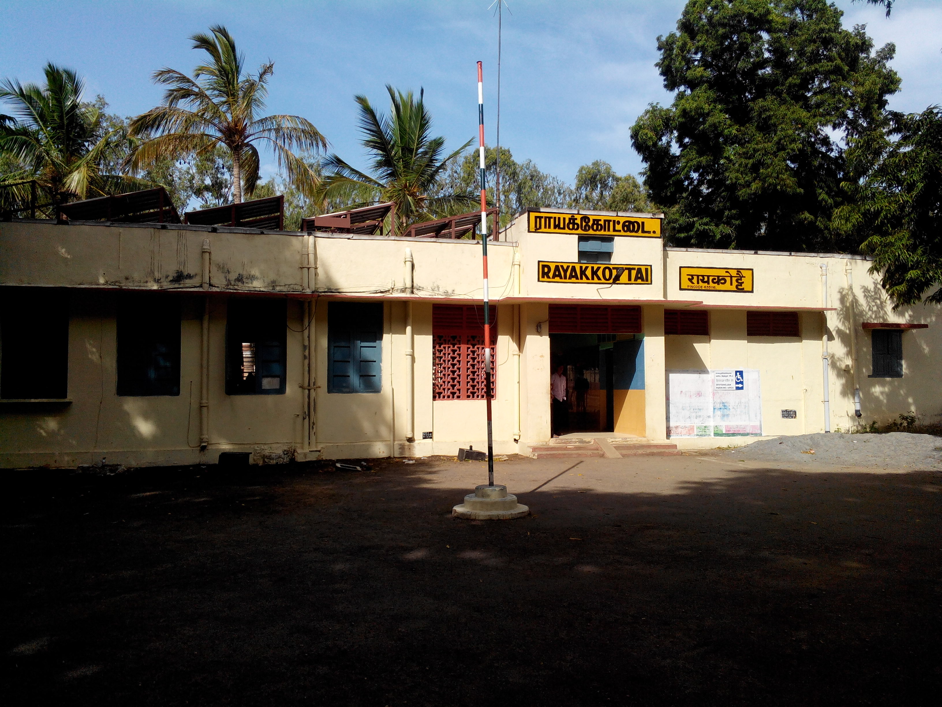 இராயக்கோட்டை தொடர்வண்டி நிலையம்